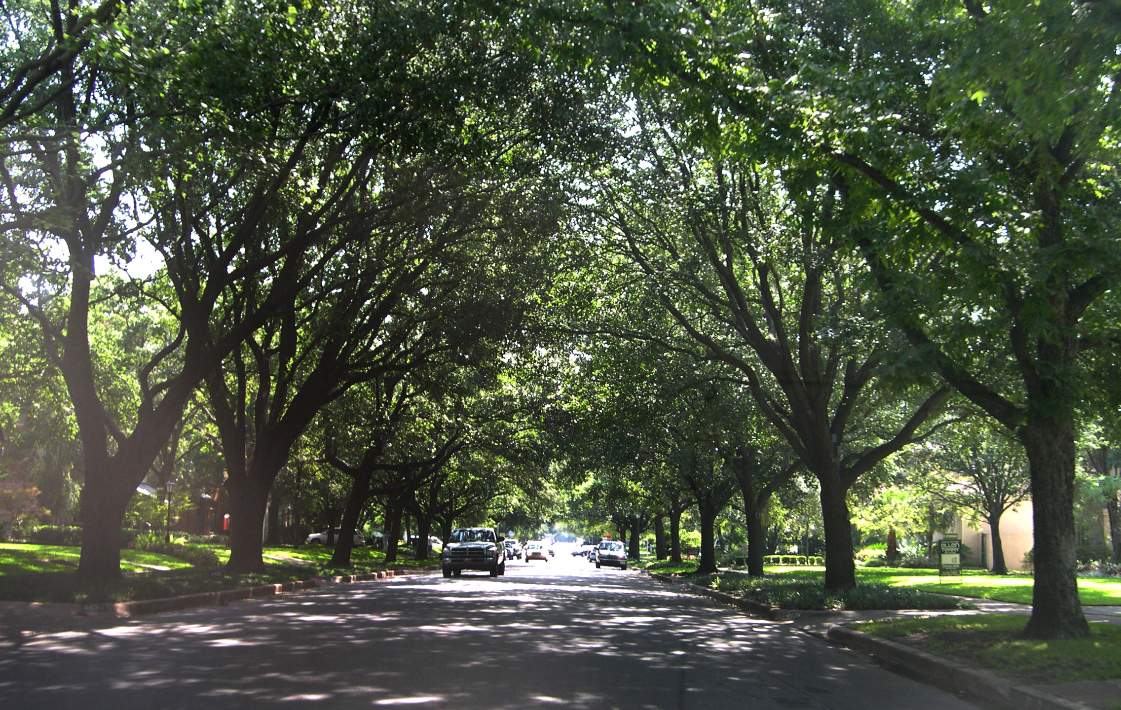 Tree-lined road of Highland Park, Texas